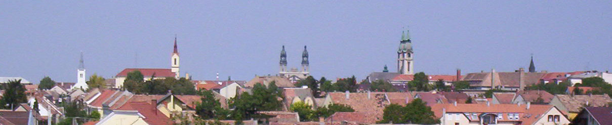 Towers of churches in Pápa. From left to right: the Lutheran church, the Saint Anne church, the Catholic Great Church, the Benedictine church (down), the Calvinist church and the hospital's chapel. Pápai templomtornyok. Balról jobbra: az evangélikus templom, a Szent Anna plébánia, a katolikus Nagytemplom, a bencés templom (lent), a református templom és a kórházkápolna.